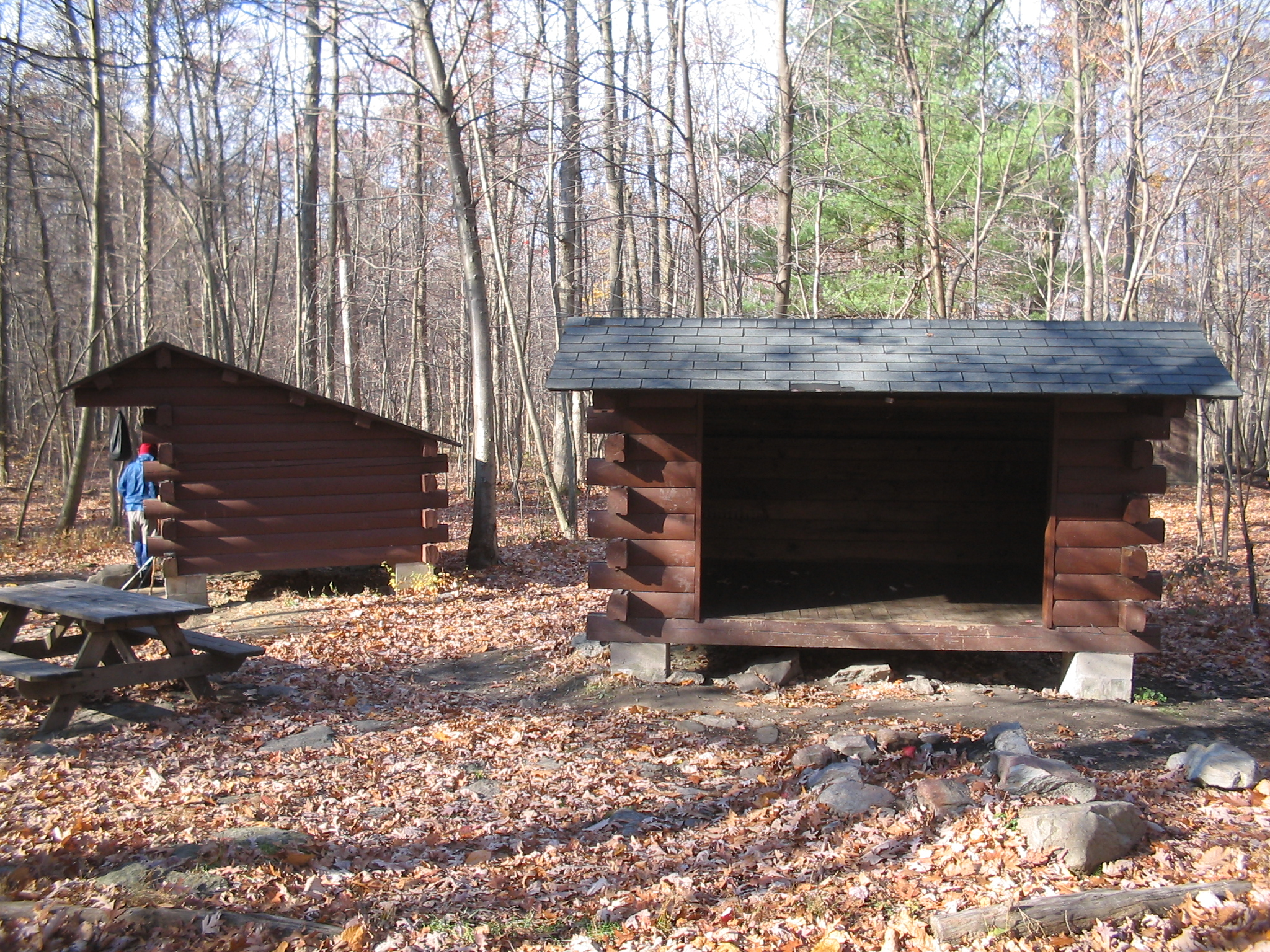 The Deer Lick Shelters on the Appalachian Trail in Washington Township, Franklin County, Pennsylvania, 4.7 miles north of the Pennsylvania/Maryland border. David Benbennick took this picture on November 11, 2005 at 10:02 AM (15:02 UTC).